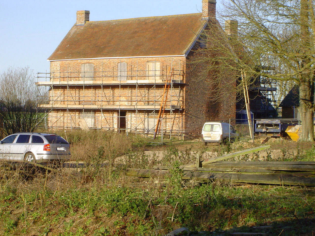 Lawshall Hall in the parish of Lawshall, Suffolk. The heritage of Lawshall Hall being safeguarded.